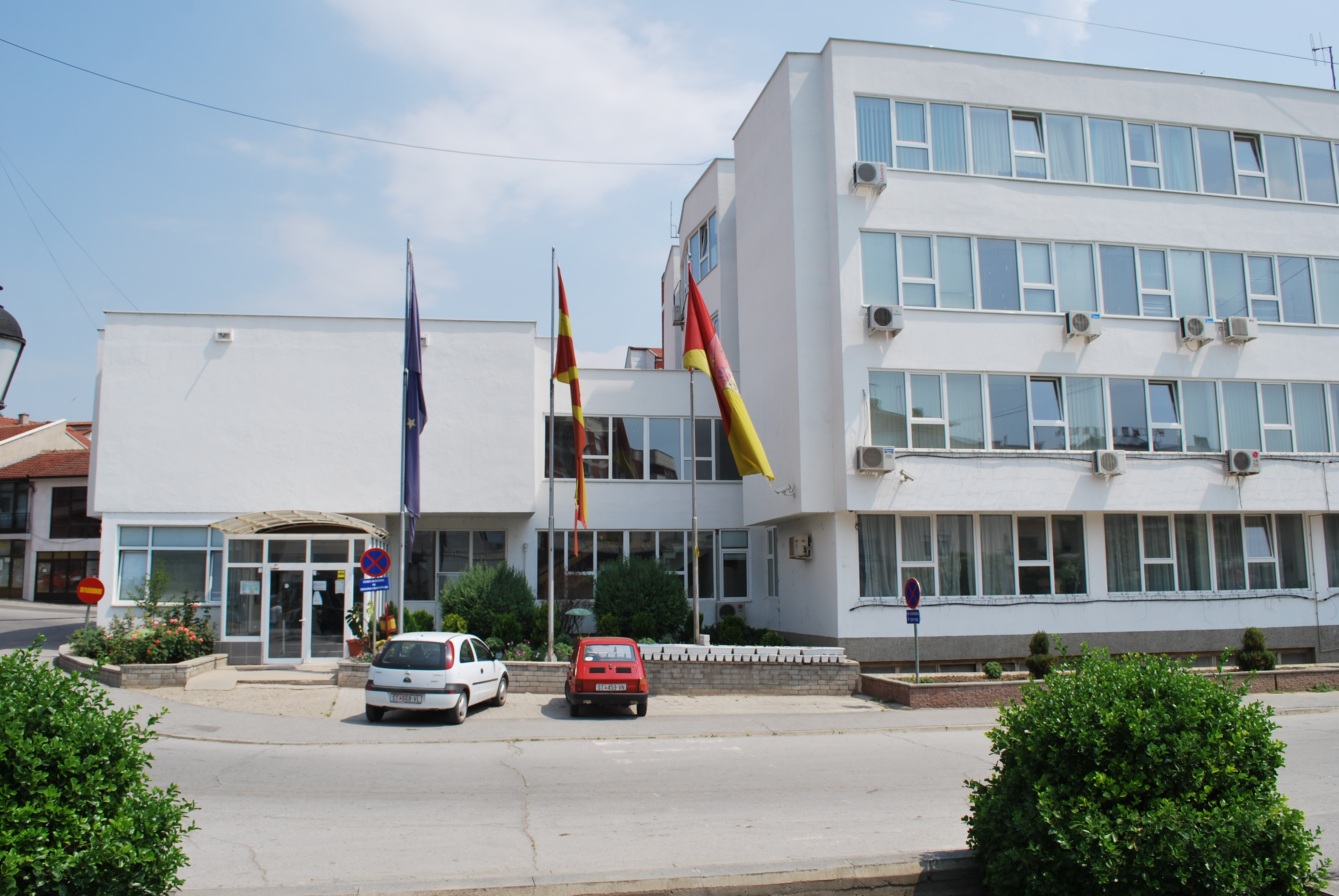 ISveti Nikole, Macedonia